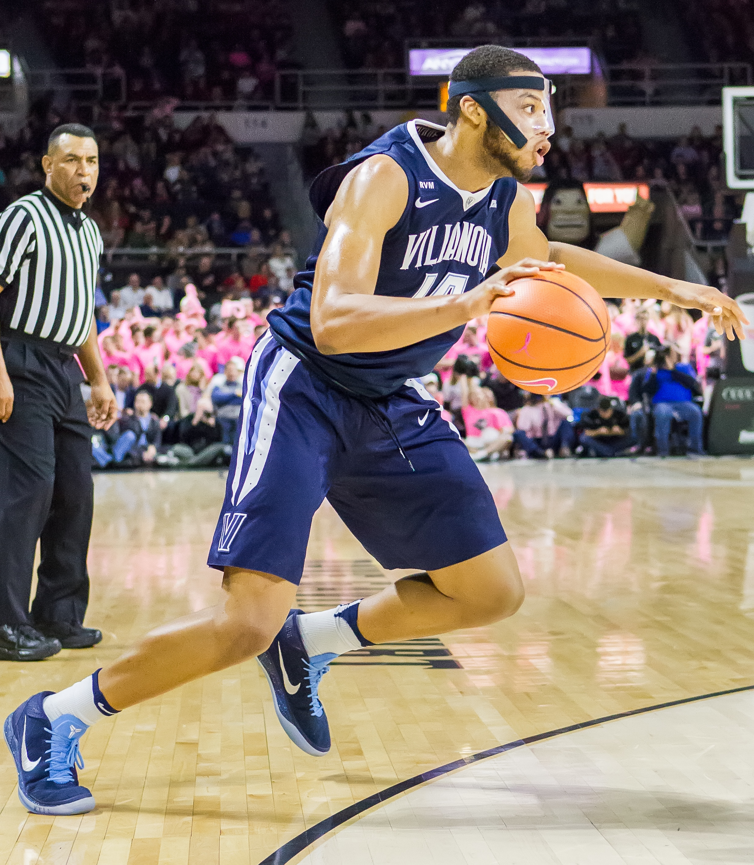 February 14, 2018. Dunkin' Donuts Center, Providence, RI.